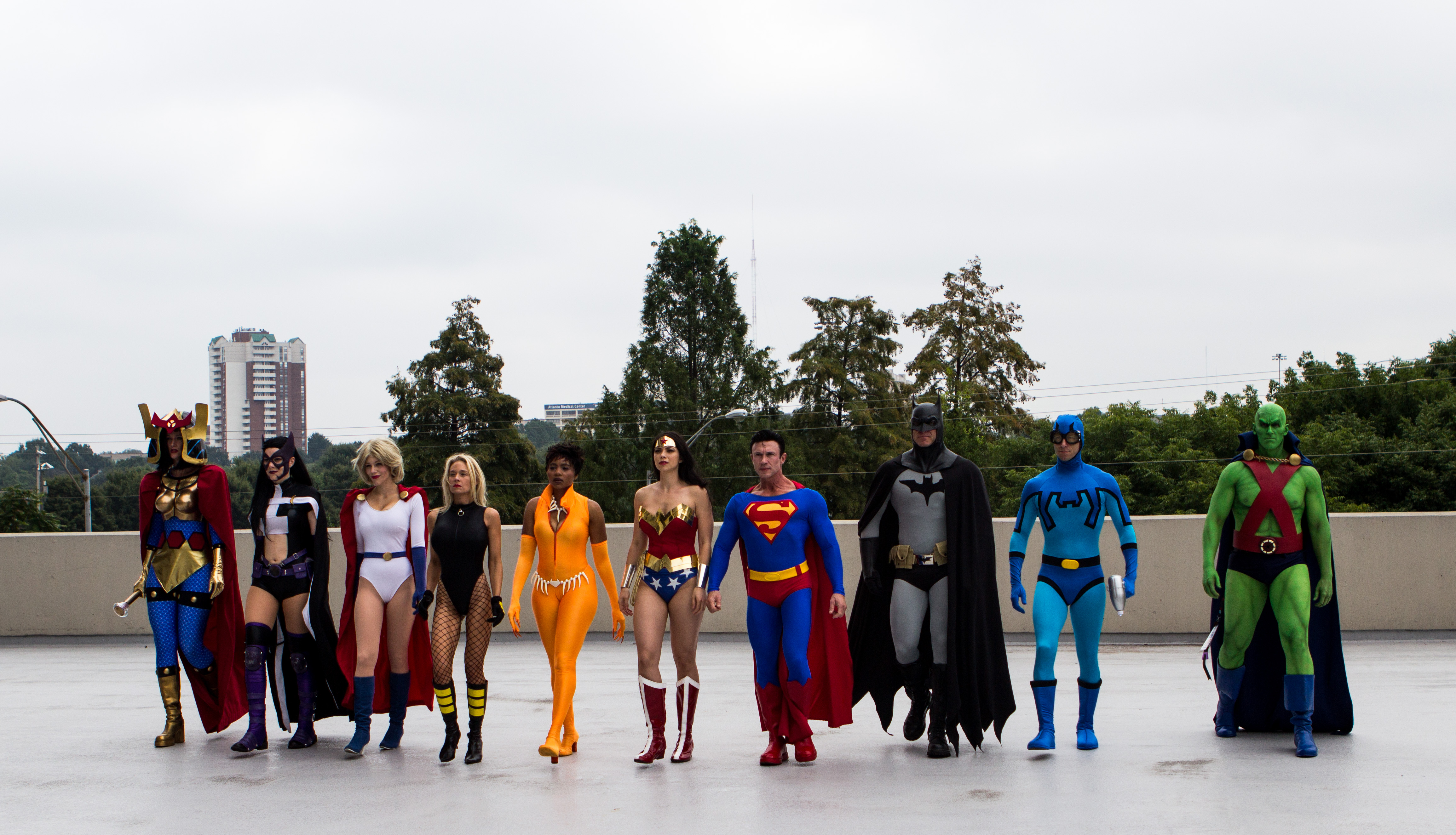 Cosplay of the Justice League, walking abreast in a line, at Dragon*Con 2013.